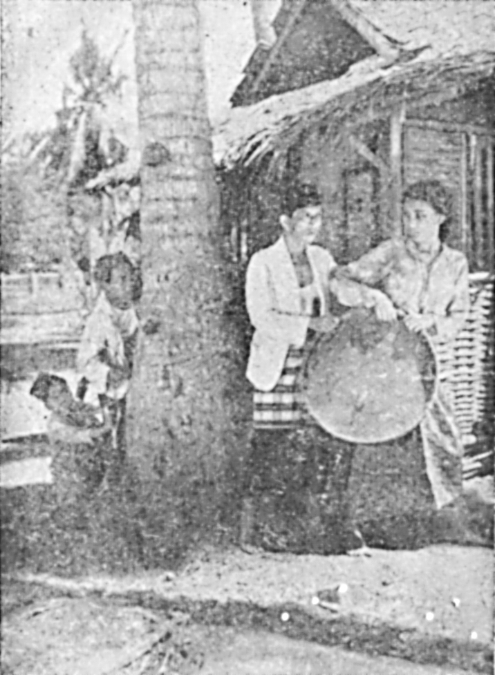 A scene from the 1940 Union Films production Harta Berdarah